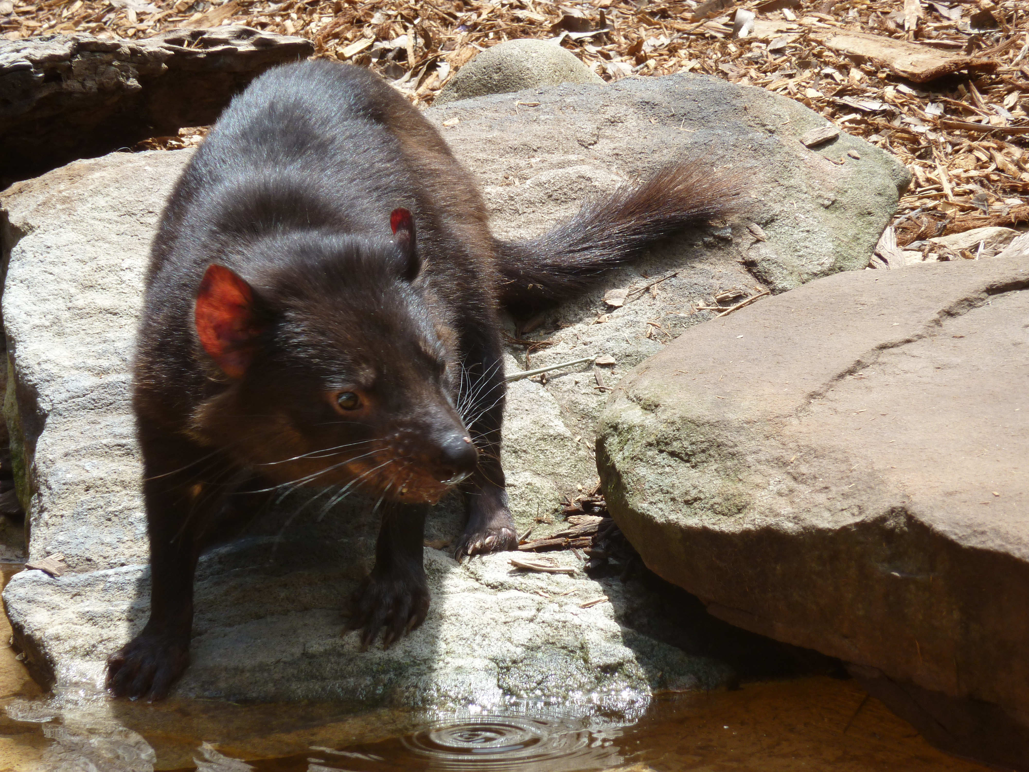 Tasmanian devil at Symbio Wildlife Park, Australia